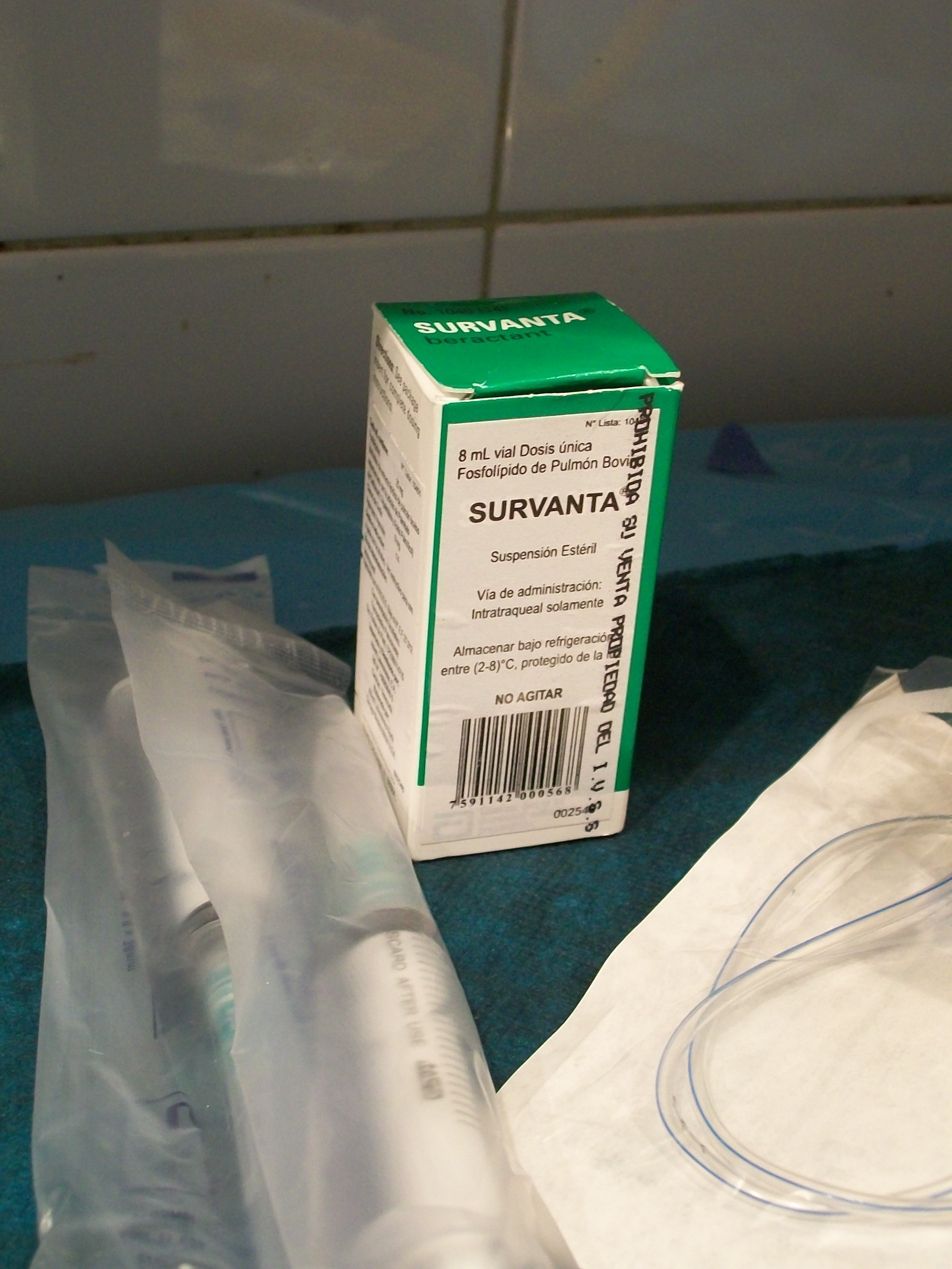 Pulmonary surfactant Survanta surrounded by equipment for its administration.